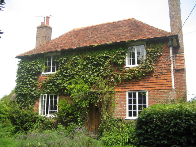 "The Larkins Residence", Buss Farm, Pluckley Road, Bethersden, Kent as featured in "The Darling Buds of May" ITV series (1991-1993)